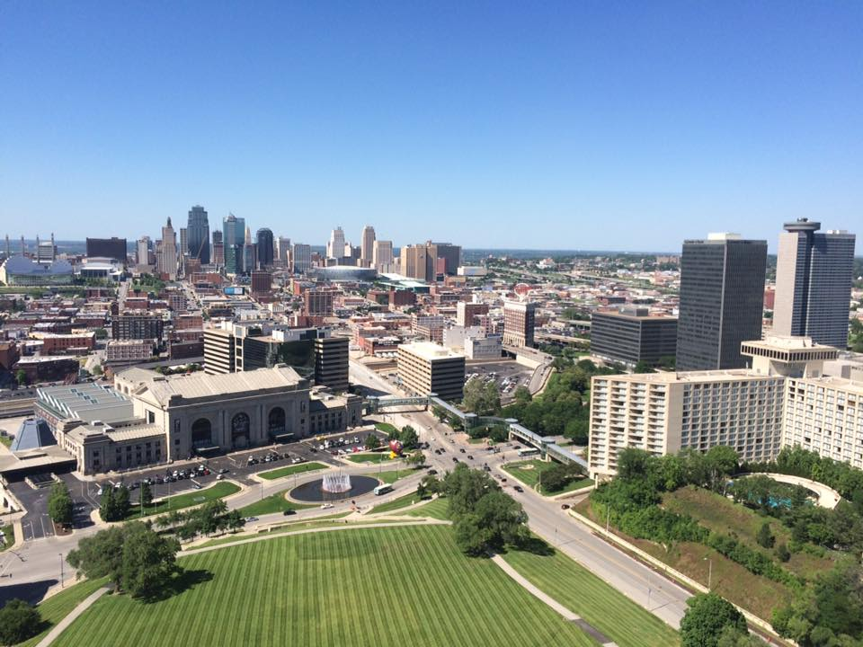 View from the top of the Liberty Memorial tower